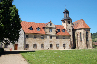 Germany / Abbey Haydau